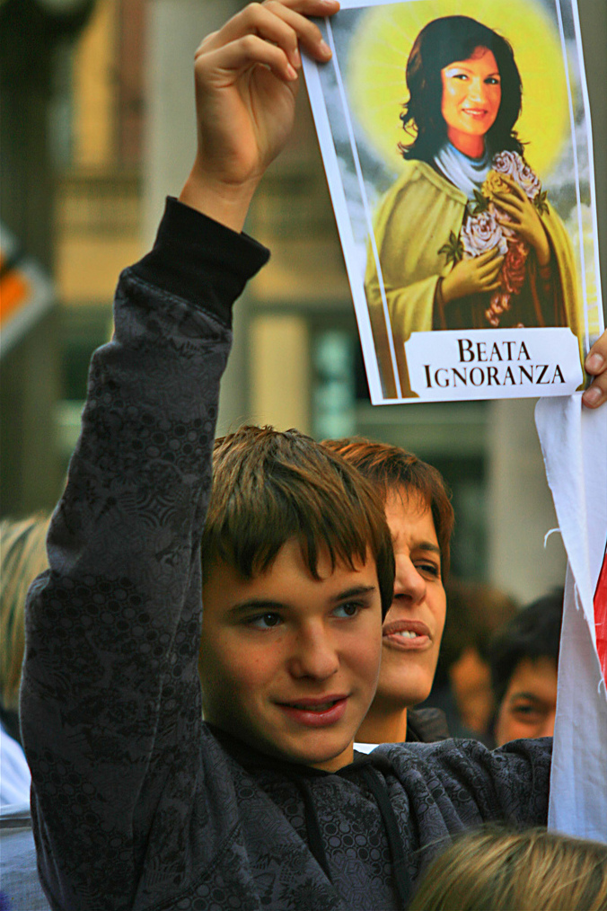 Mariastella Gelmini, Italian Minister of Education in the Berlusconi IV Cabinet, depicted in a Holy card as "Beata Ignoranza" (Beata Ignorance), during the protests against M. Gelmini's school reform, held in Italy on 30 October 2008